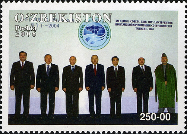 Stamps of Uzbekistan, 2006